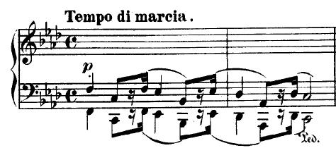 Fantasy F minor Op. 49 - F. Chopin